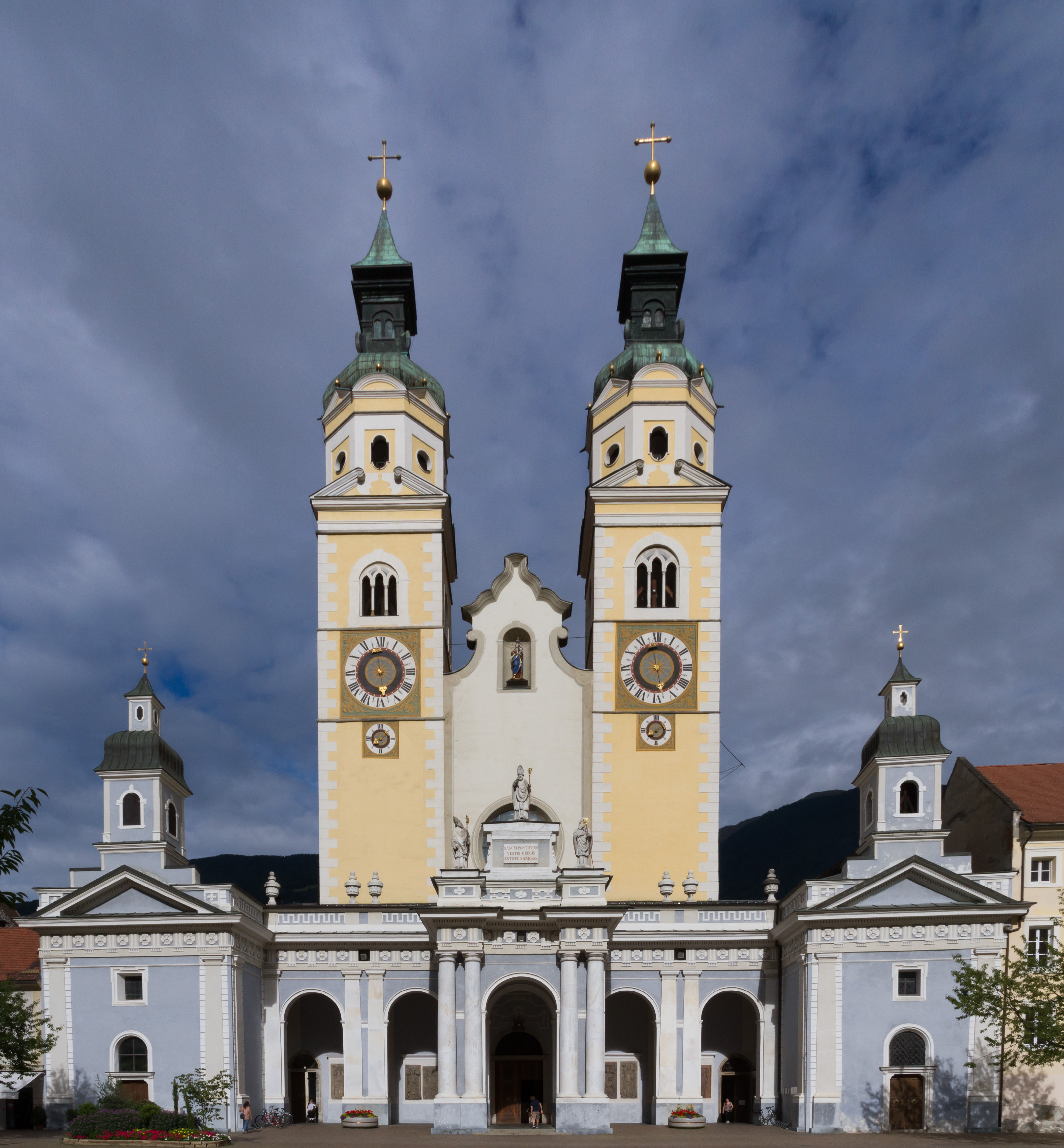 Cathedral in Brixen